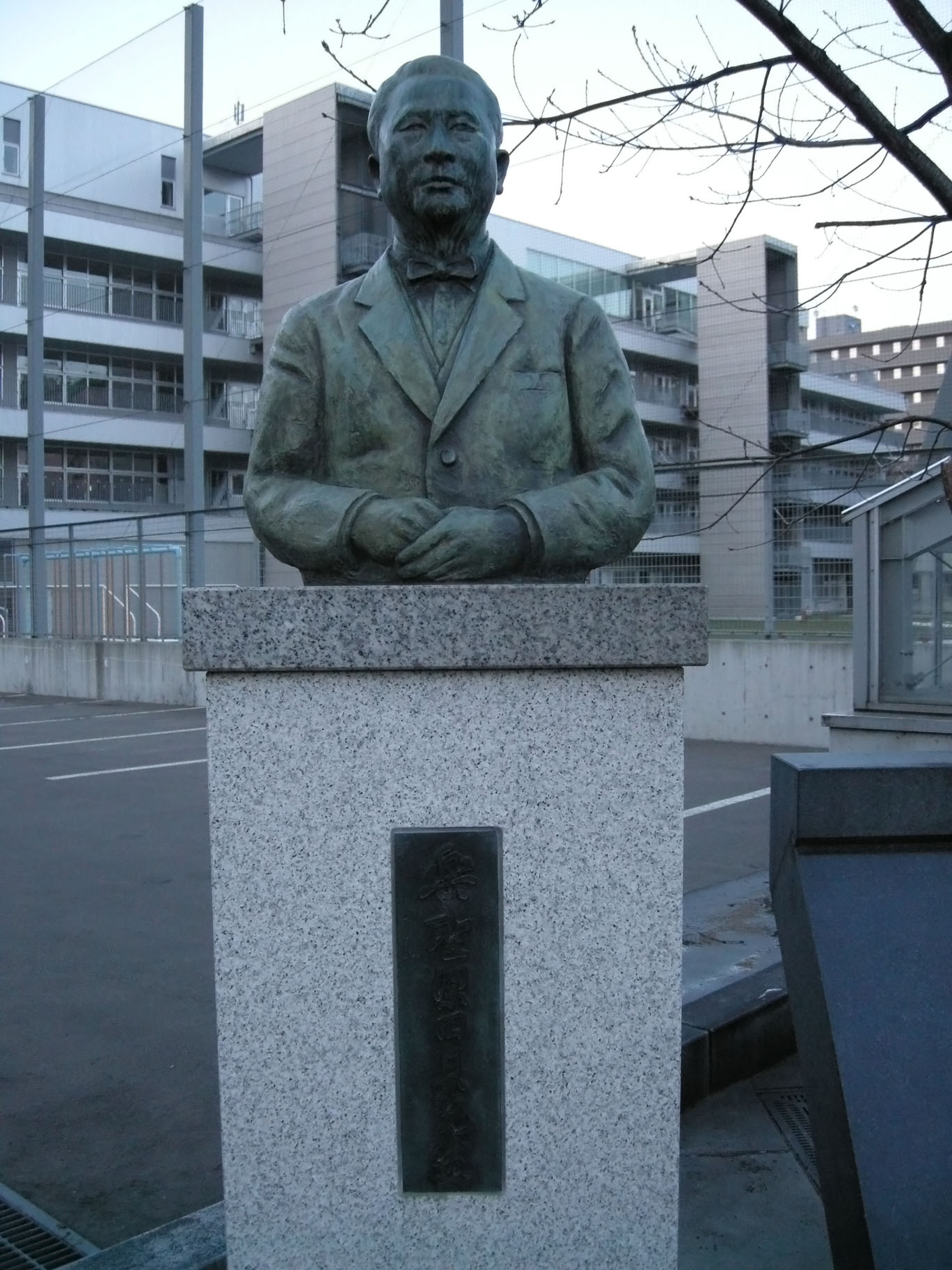 Statue of Tadashi Yanada, Sapporo, Hokkaido, Japan